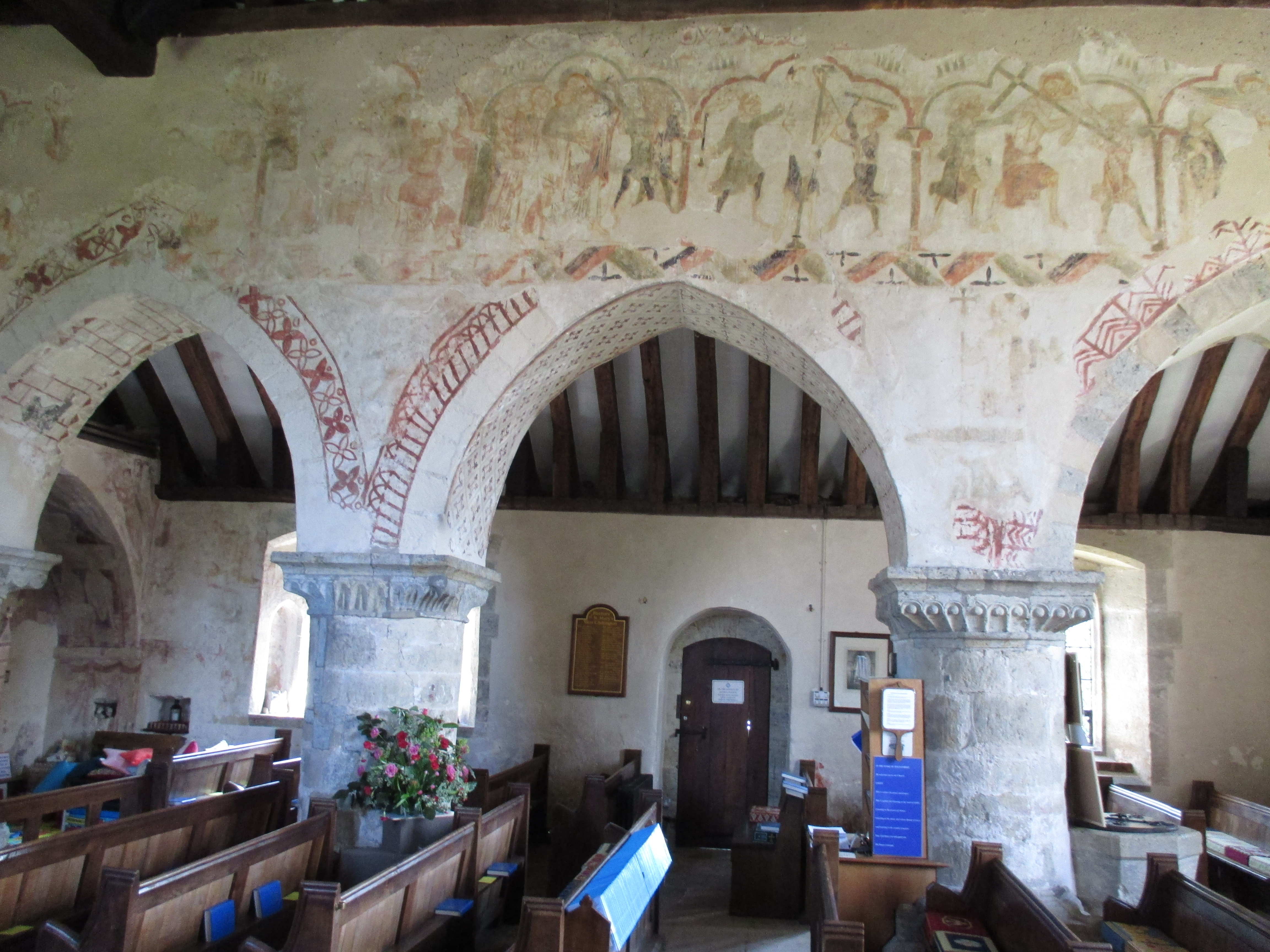 South arcade of St Mary's Church, West Chiltington, West Sussex.